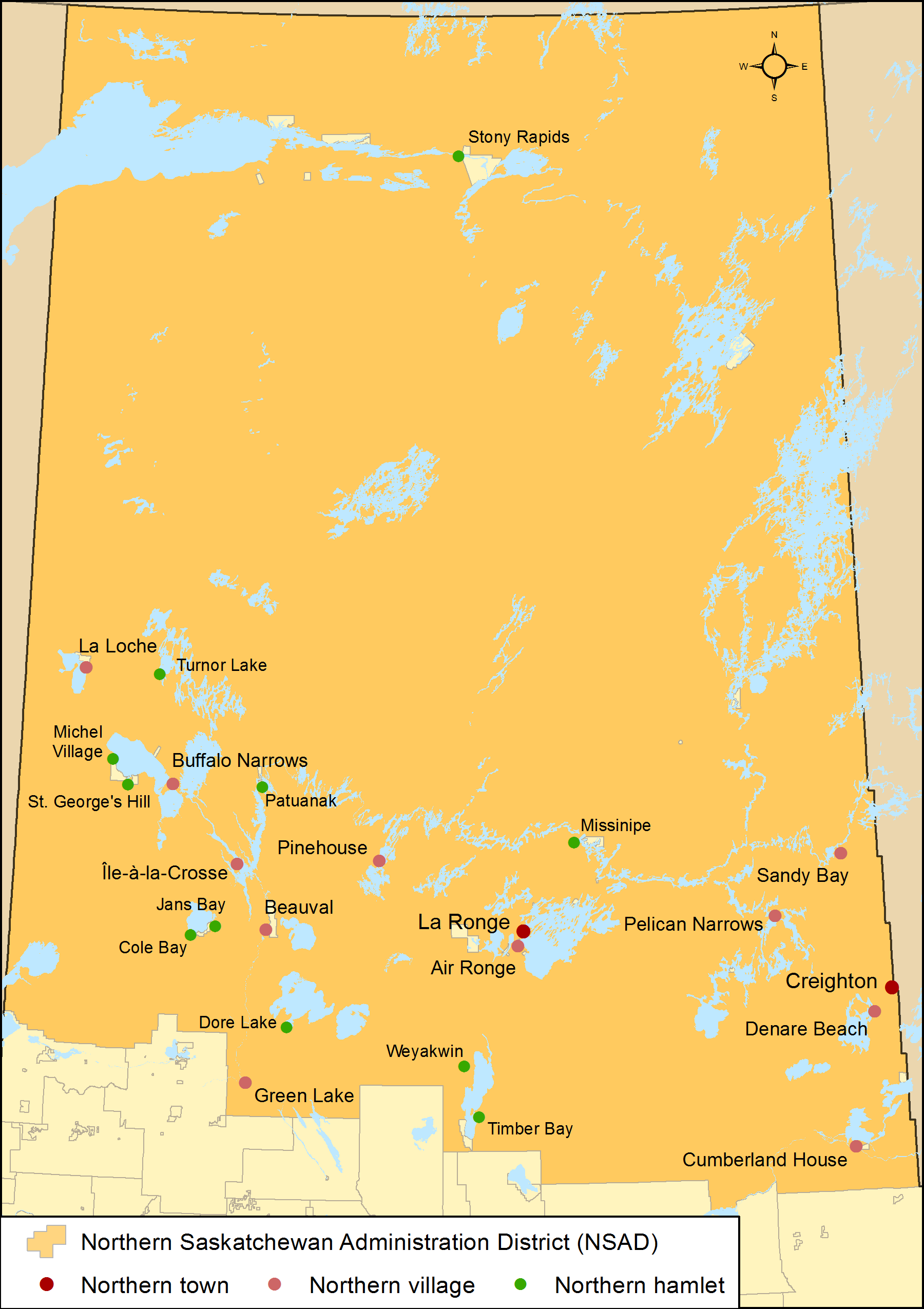 Incorporated northern towns, northern villages and northern hamlets in Saskatchewan as of 2013